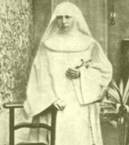 Marie Adolphine was a Dutch Roman-Catholic nun and missionary in China. She died during the Boxer rebellion.